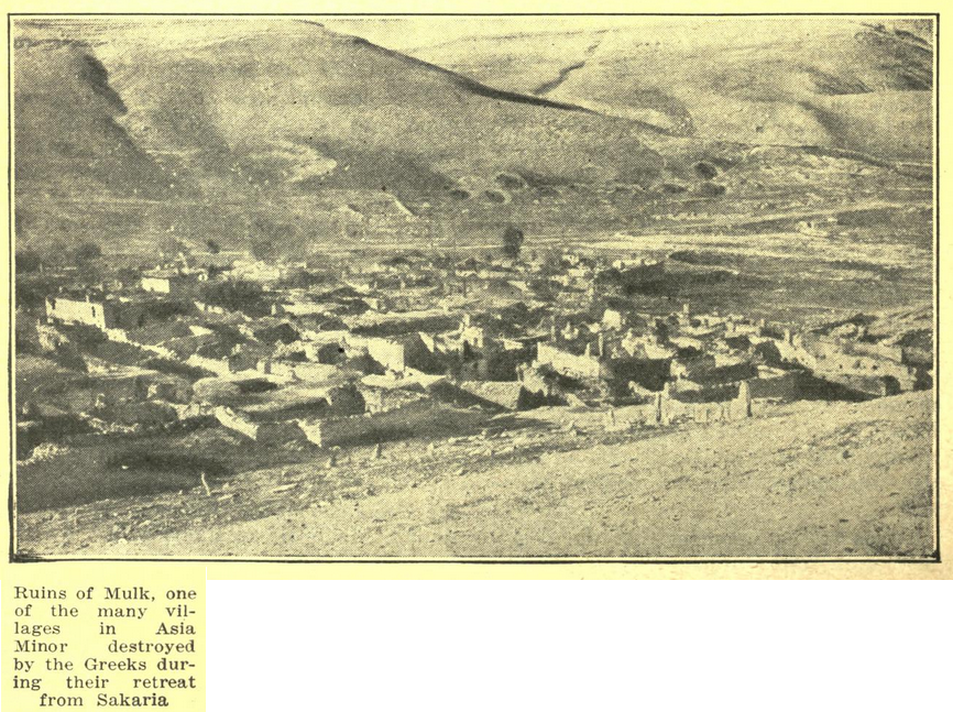 Destroyed Turkish village of Mülk, Sivrihisar in Central Anatolia by the Greeks after their retreat in 1921 as a result of their scorched earth policy. Taken during Greco Turkish war 1919-1922.